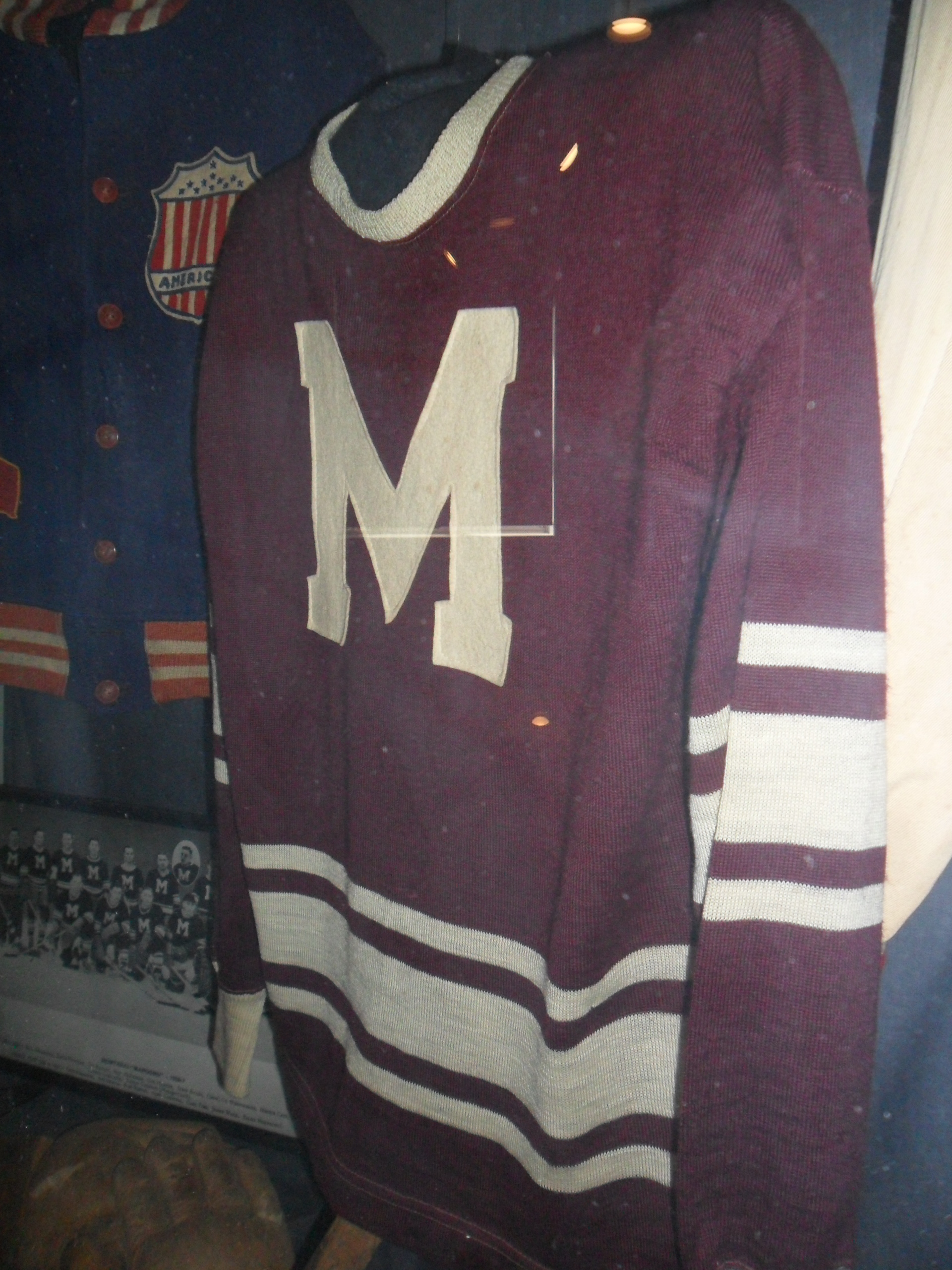 Jersey worn by defunct NHL Montreal Maroons team